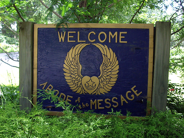 The is the welcome sign at the entrance to the Abode of the Message, a spiritual intentional community in New Lebanon, NY, associated with the Sufi Order International.